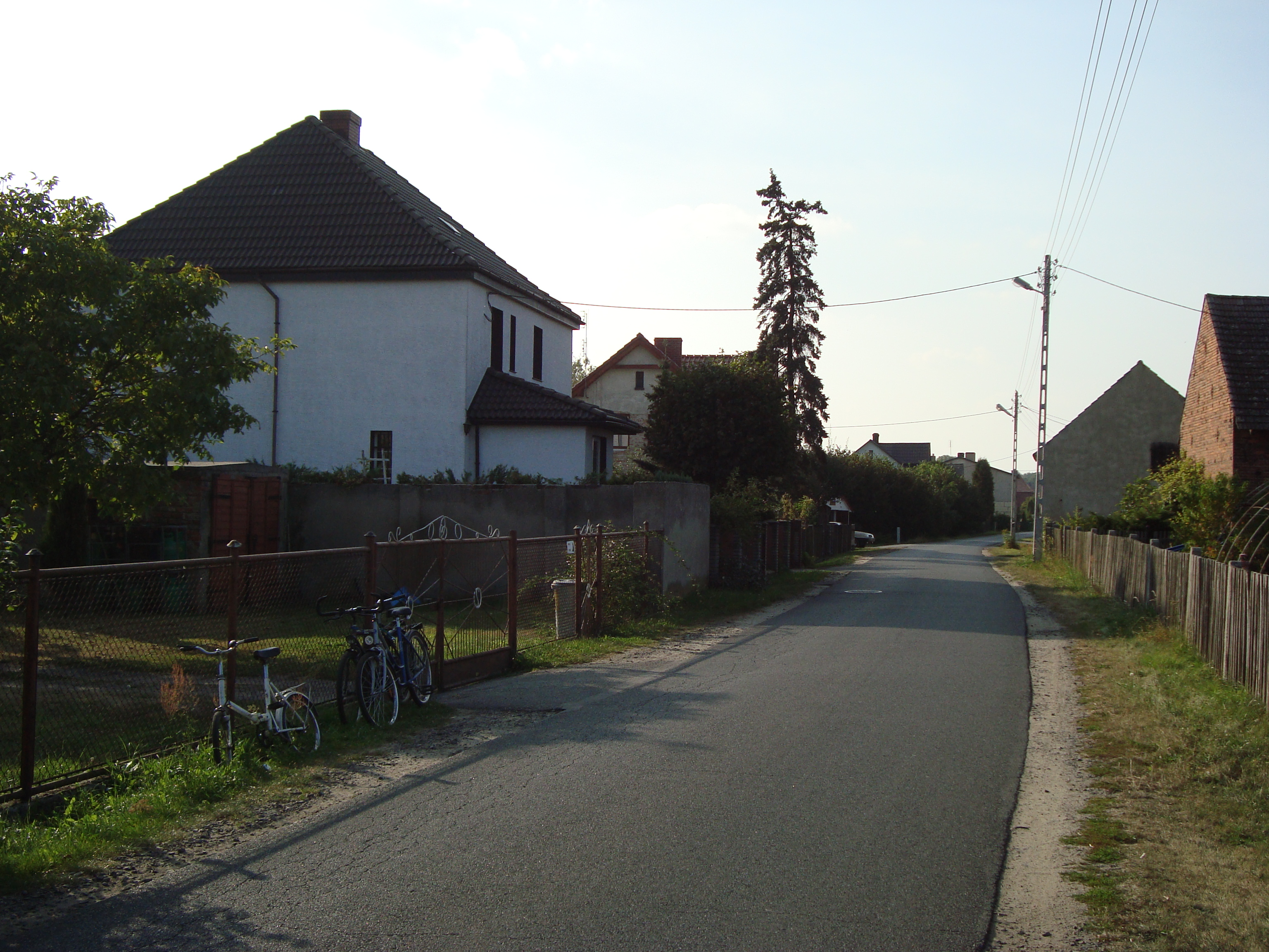 Waly - a part of village